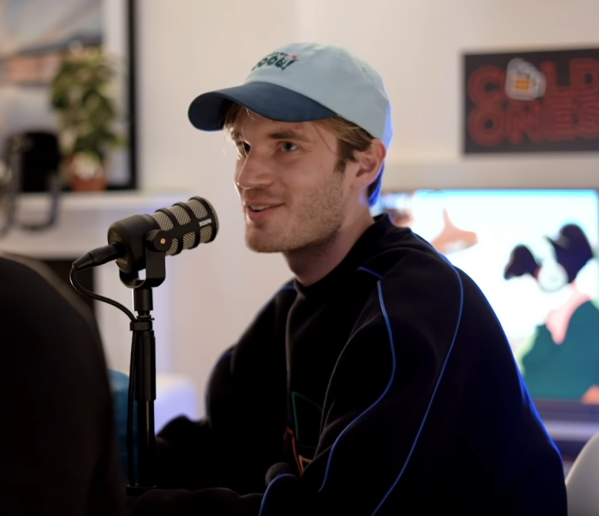 PewDiePie seen on the Cold Ones podcast (2019).